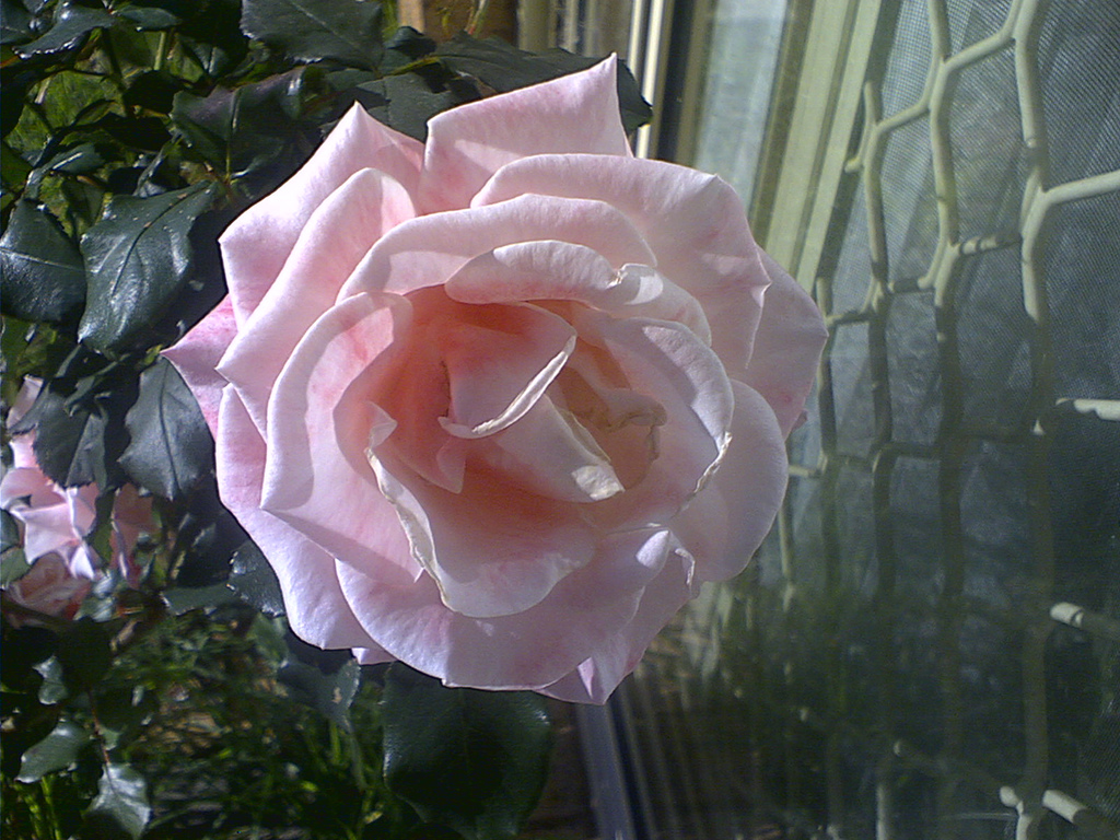 Mary McKillop rose flowering in winter.